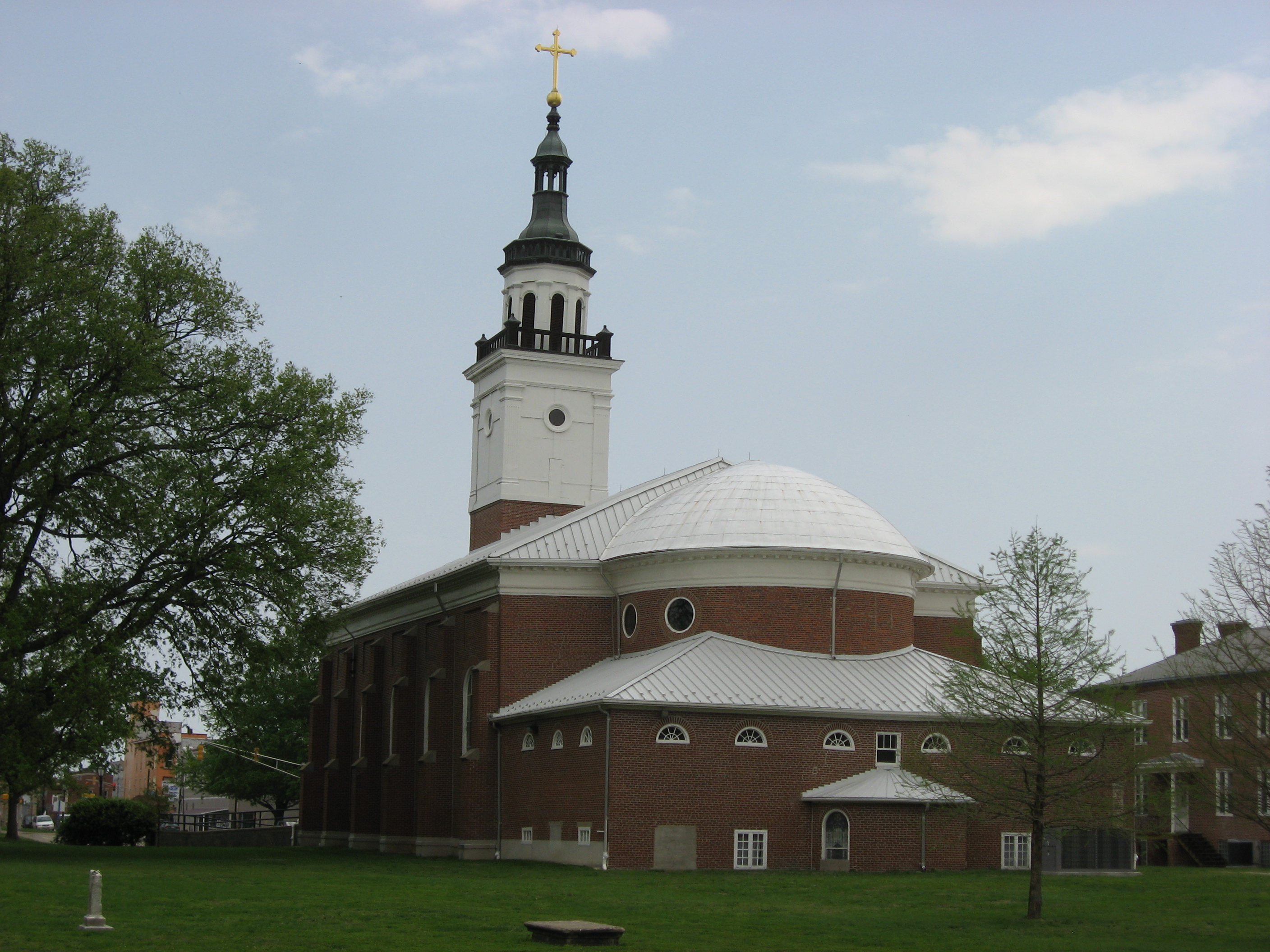 Rear of St. Francis Xavier Catholic Church, located along Church Street in Vincennes, Indiana, United States. Built in 1826 and once the cathedral for the Diocese of Vincennes, it is the core of the Old Cathedral Complex. The complex is listed on the National Register of Historic Places, and it is part of a Register-listed historic district, the Vincennes Historic District.